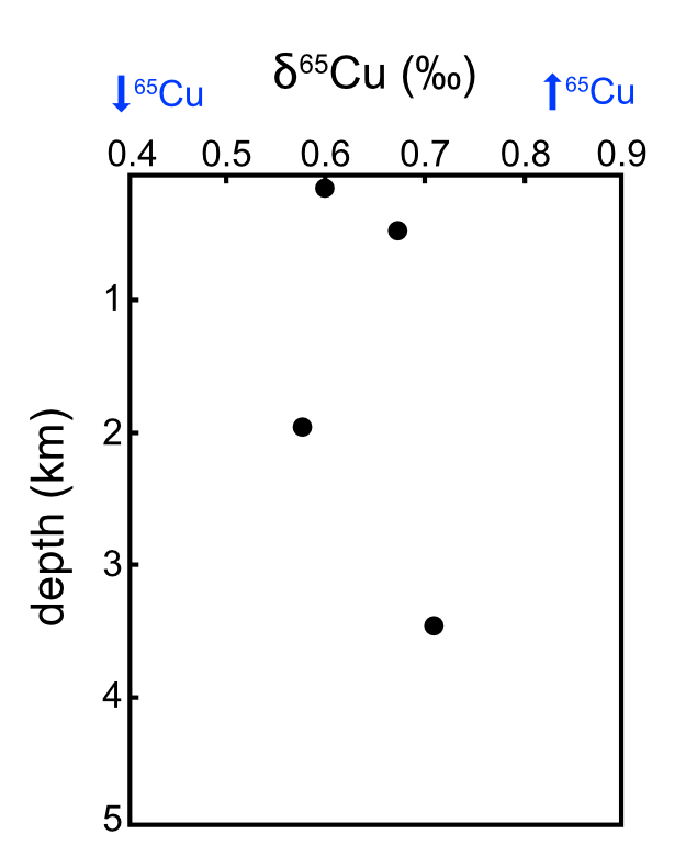 Vertical Cu isotope profile in the Atlantic ocean. Data from: Boyle et al., 2012. GEOTRACES IC1 (BATS) contamination-prone trace element isotopes Cd, Fe, Pb, Zn, Cu, and Mo intercalibration. Limnol. Oceanogr.: Methods 10, 653-665.